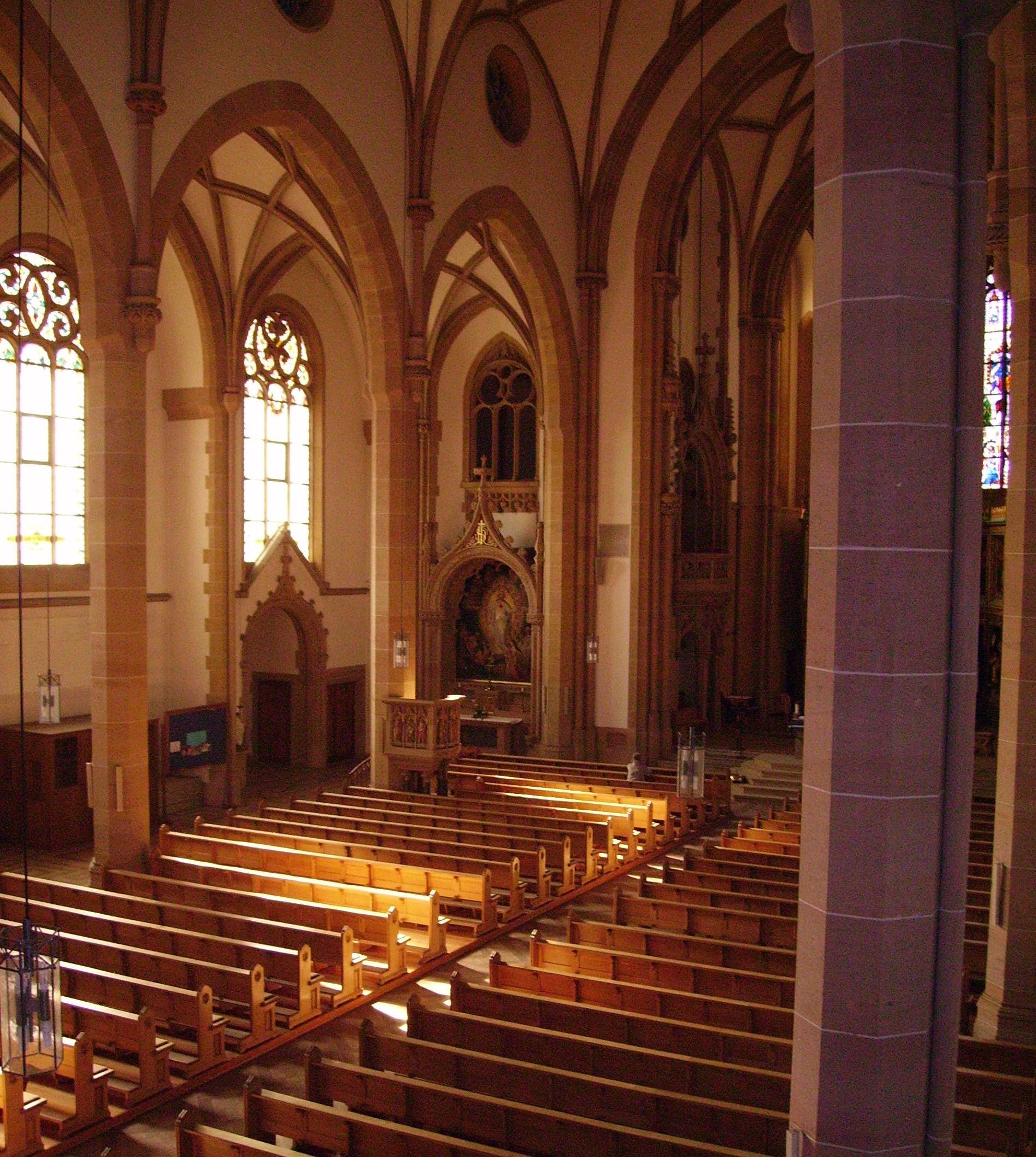 Josephskirche in Speyer, Germany